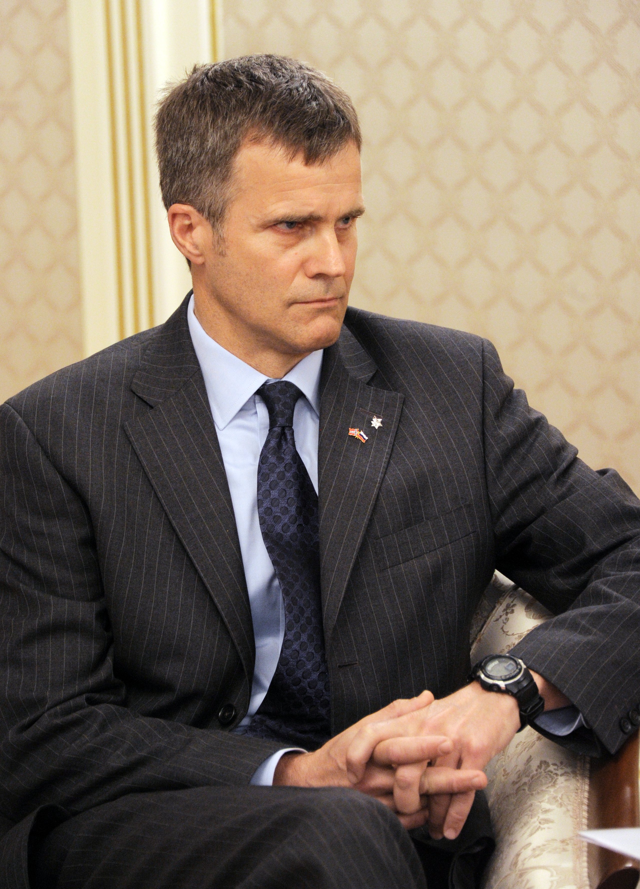 Statoil ASA CEO Helge Lund